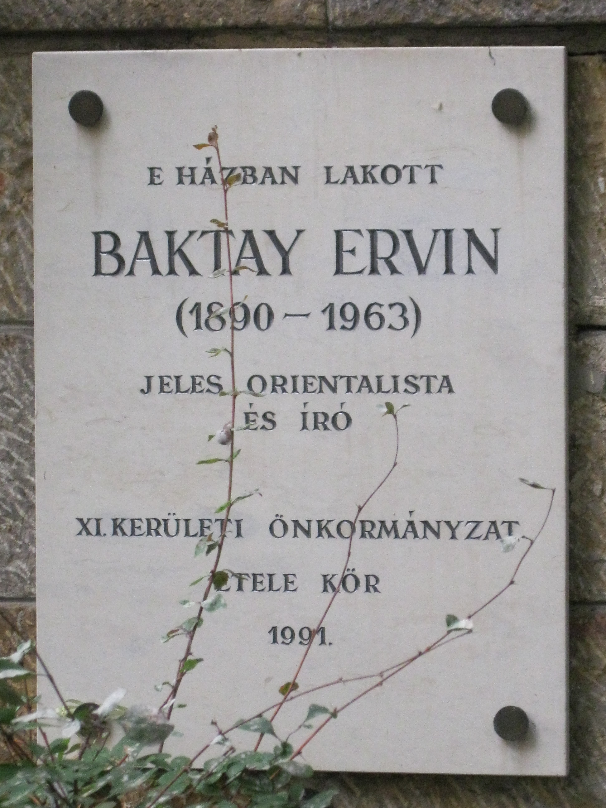 Ervin Baktay commemorative plaque in Budapest District XI, Eszék Street No 16/a.